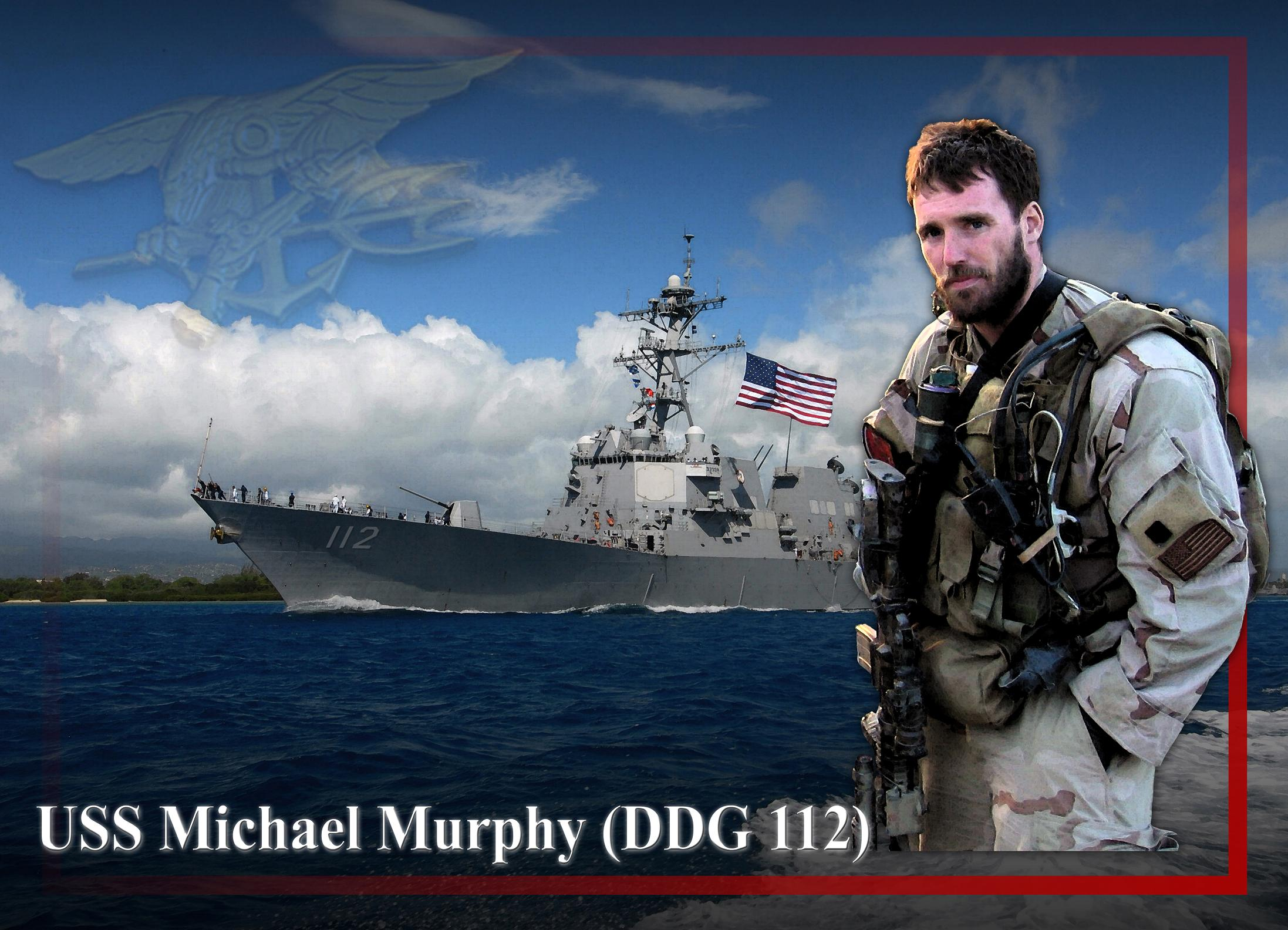 080507-N-5025C-003 WASHINGTON (May 7, 2008) A photo illustration of the guided-missile destroyer USS Michael Murphy (DDG 112). The ship will be named after Lt. Michael P. Murphy (Sea, Air, Land) who was posthumously awarded the Medal of Honor for his actions during combat in Afghanistan on 27 and 28 June 2005.